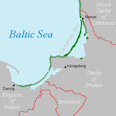 (New) Curonian speaking people's territory in 1649.